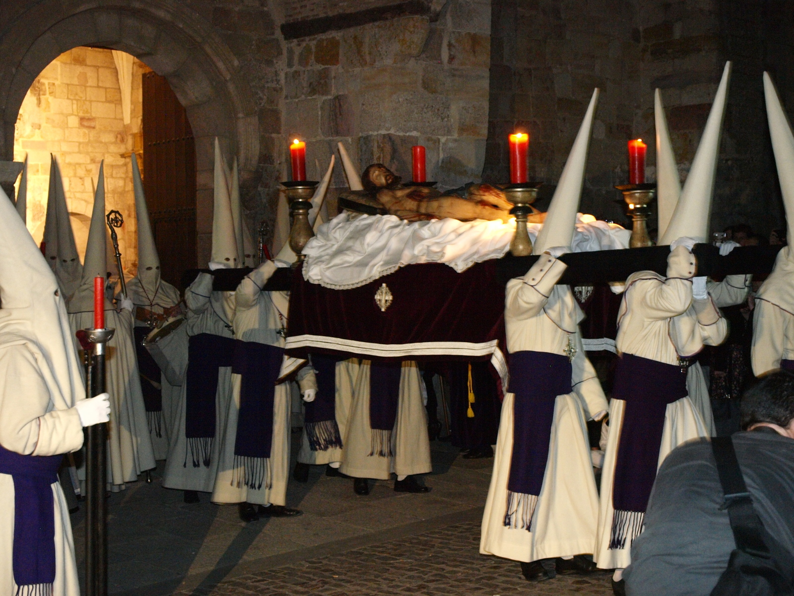 Beginning of the parade of the religious brotherhood of Lying Jesus (Penitente Hermandad de Jesús Yacente), Zamora, Spain, Holy Week